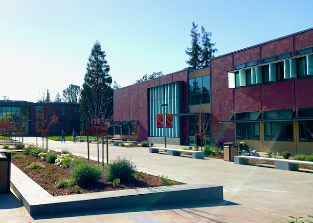 Partial view of Campbell Academic & Arts Center (left) and Homer Science Center (right)